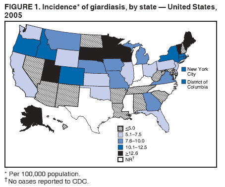 Incidence of Giardia lamblia infection reported to the US Centers for Disease Control, broken down by state.